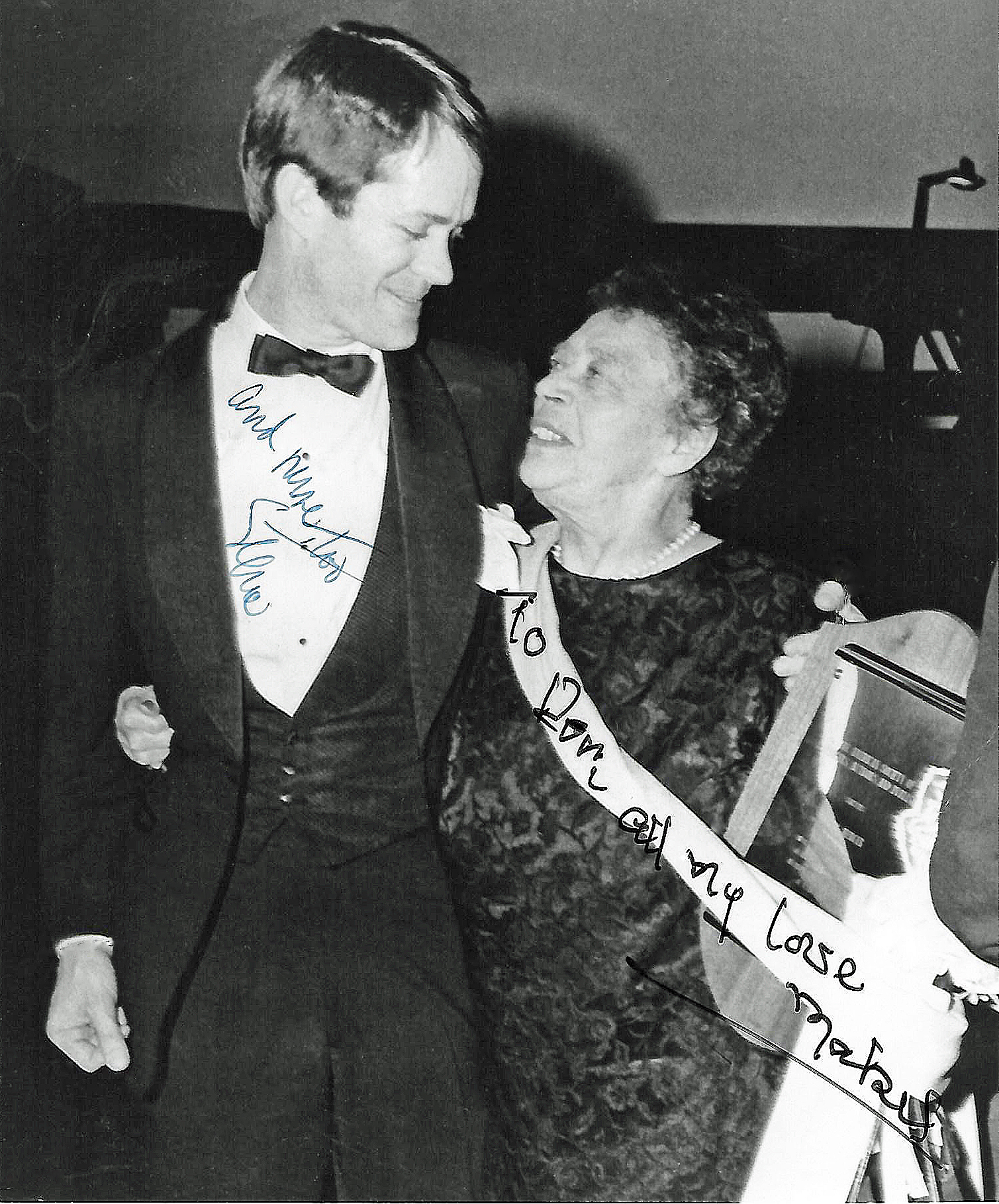 Autographed photo of American cabaret performers Steve Ross and Mabel Mercer, in New York City 1982